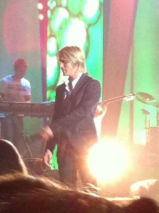 Nikos Oikonomopoulos at Thea Nightclub in Atens.